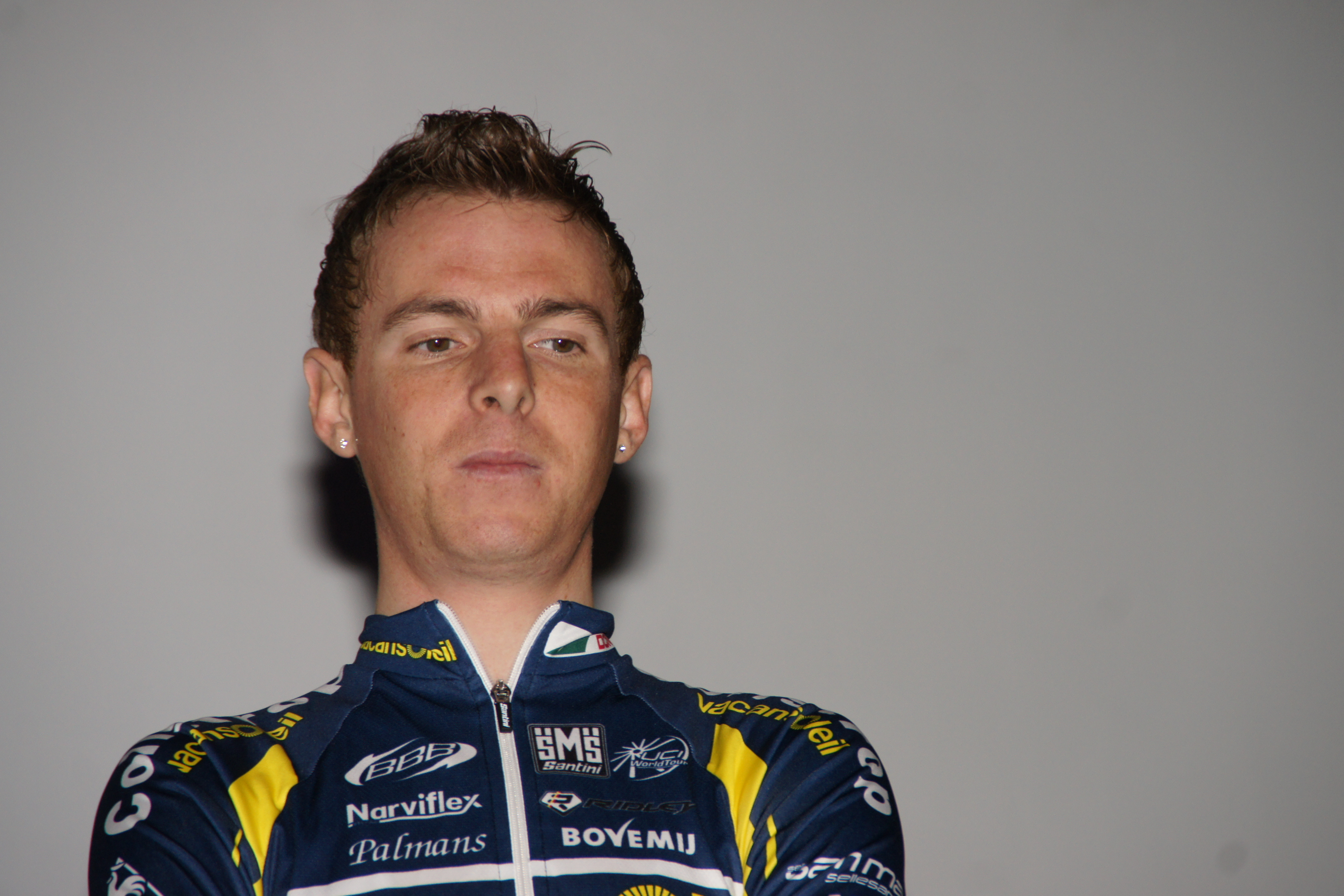 Riccardo Riccò during the presentation of Vacansoleil-DCM Cycling team in Ahoy' Rotterdam.